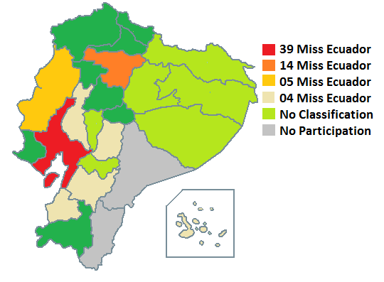 Miss Ecuador winners in Map 2017